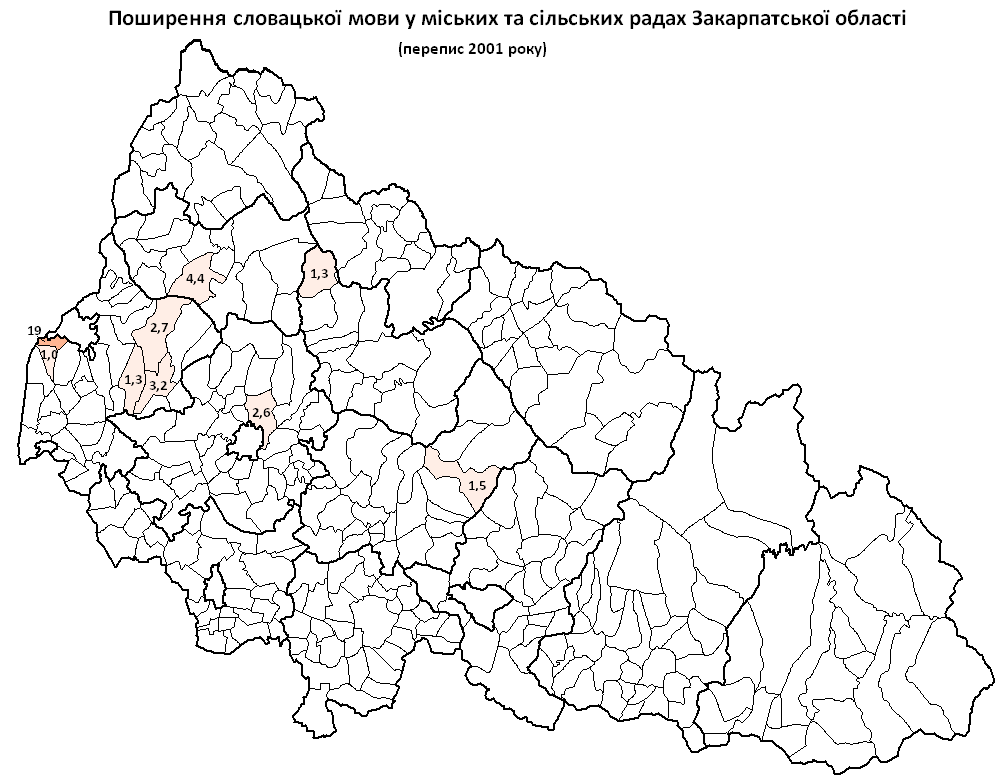 Slovak as native language in Zakarpattia oblast according to 2001 census